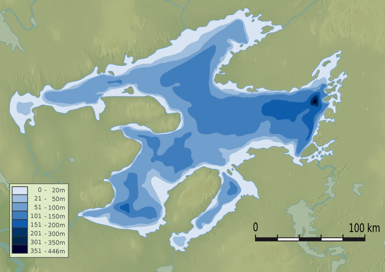 Depth Information Great-Bear-Lake